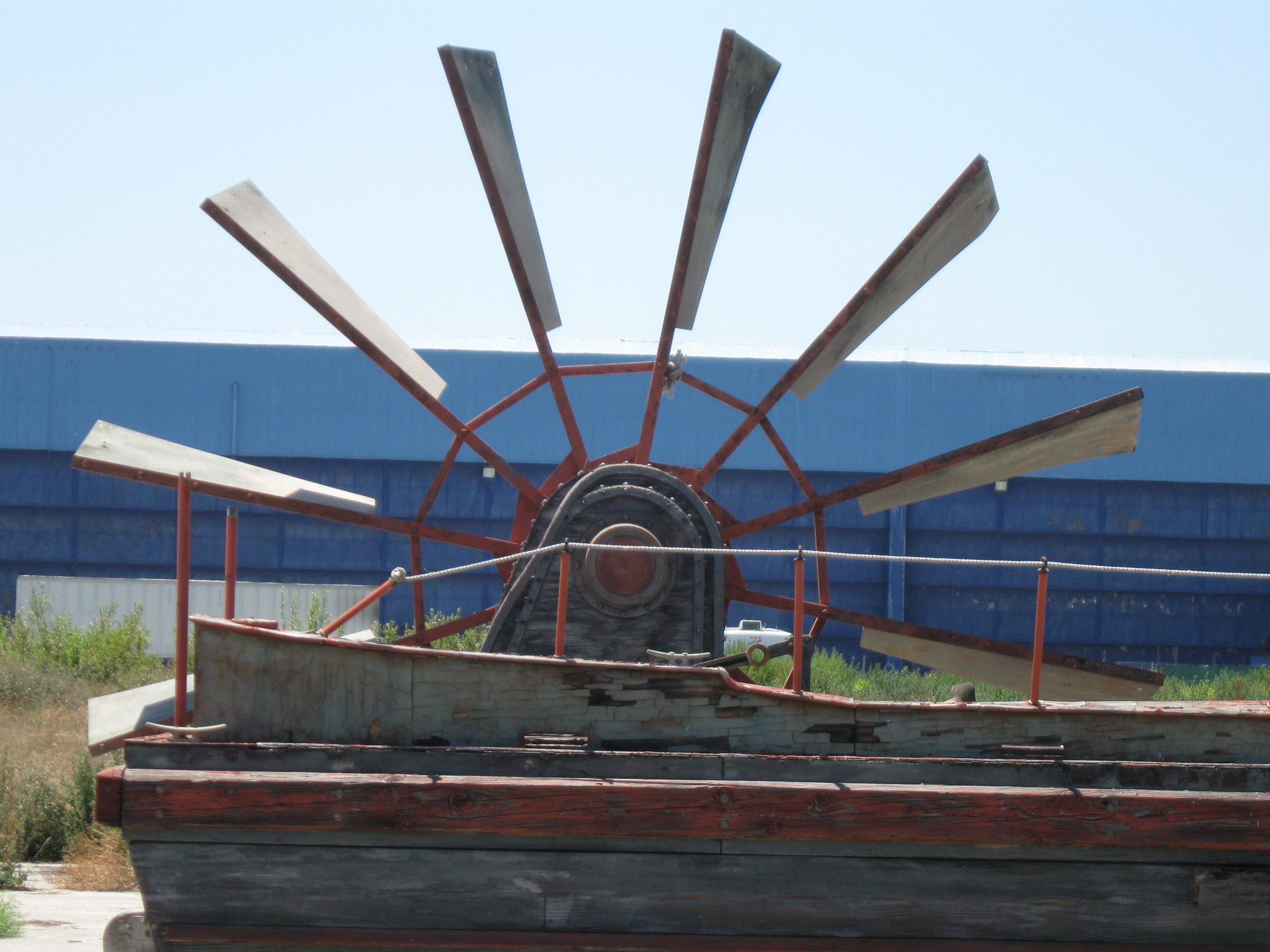 Photo of simulated paddle wheel at Downey Studio, in Downey California, as viewed from the public sidewalk on Bellflower Boulevard